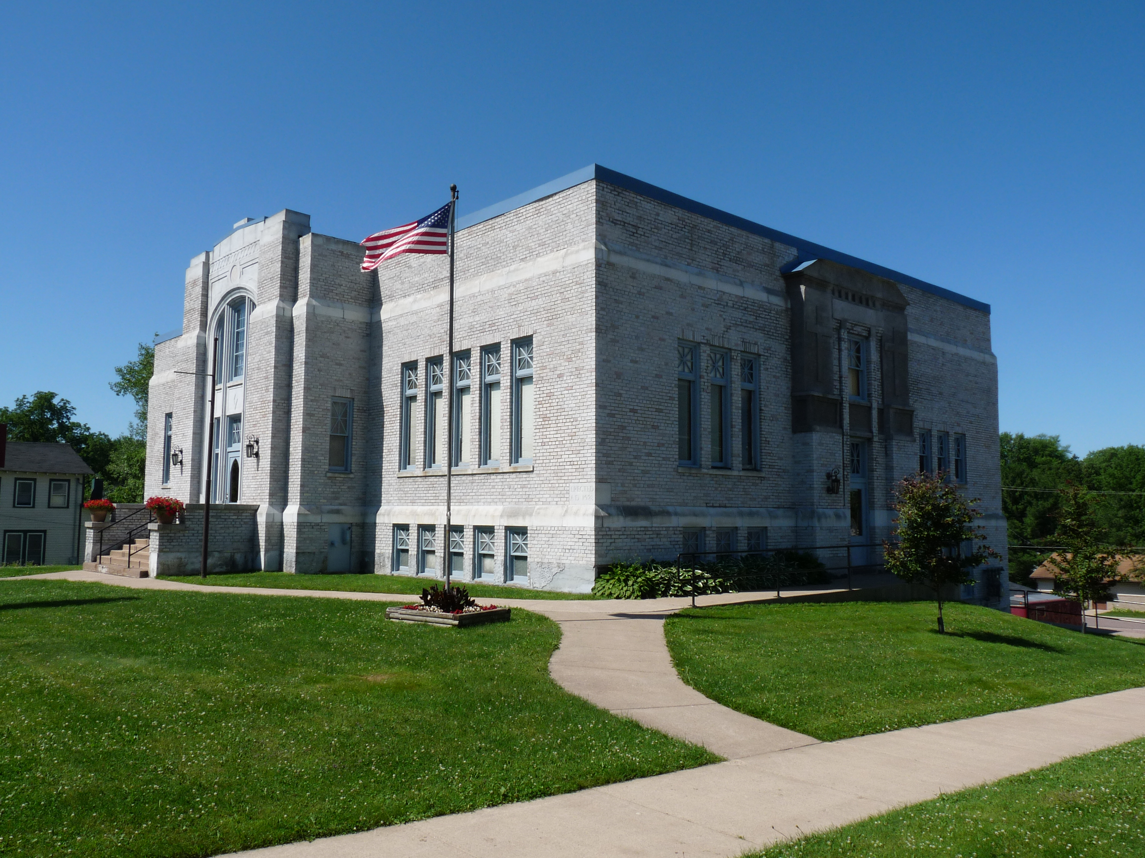 Masonic Temple Lodge No. 163 in Neillsville, Wisconsin was built in 1928 in a Stripped Classicism style, with a bowling alley in the basement. Today it us used as a church and is on the National Register of Historic Places.